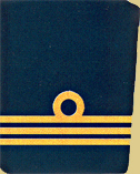 Rank insignia of the Austro-Hungarian Navy (K.u.k. Navy) 1786 to 1918, “Lieutenant"